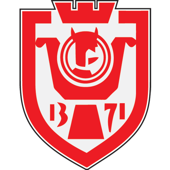 Emblem of Kruševac